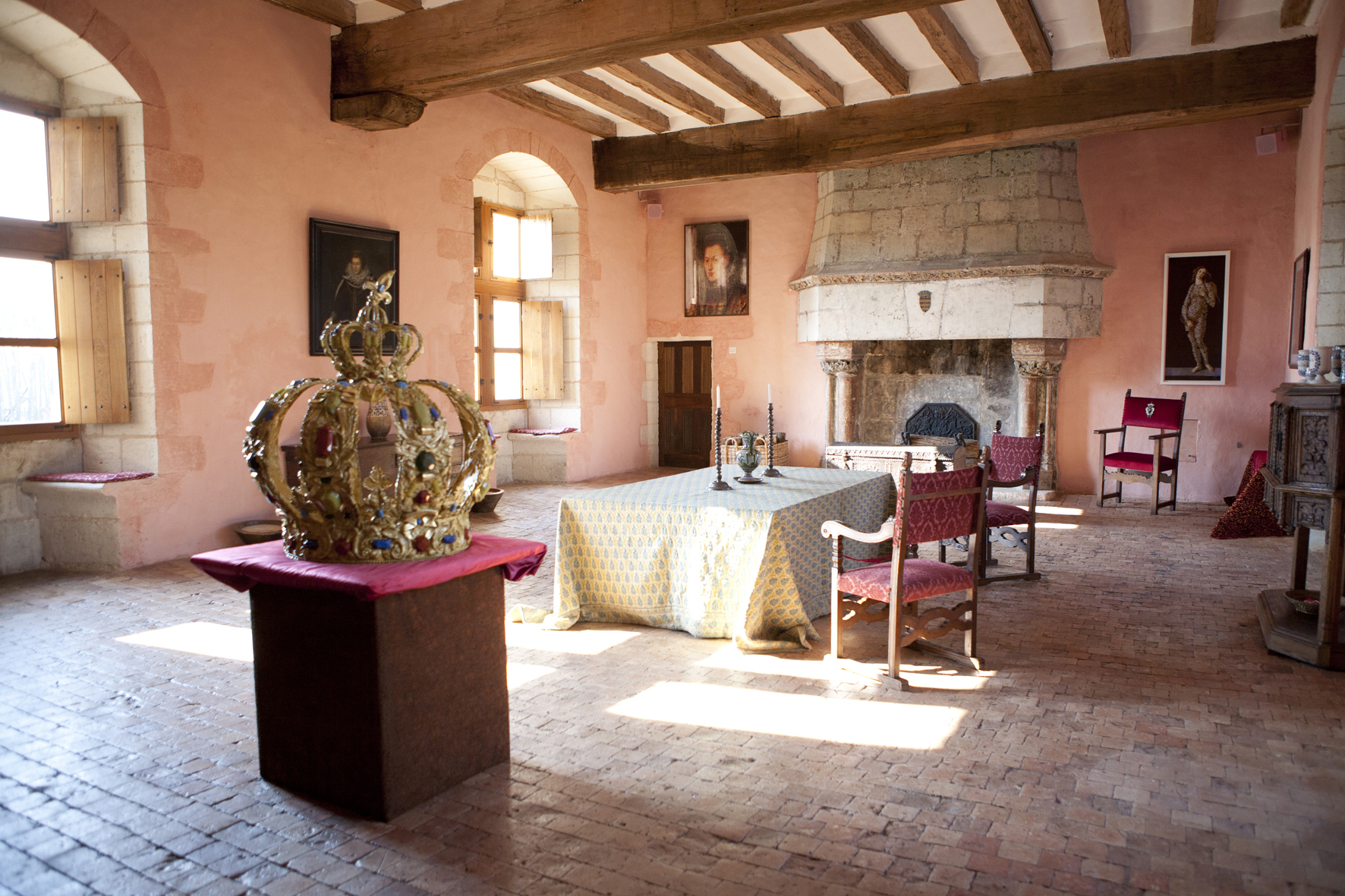 ©chateaudurivau